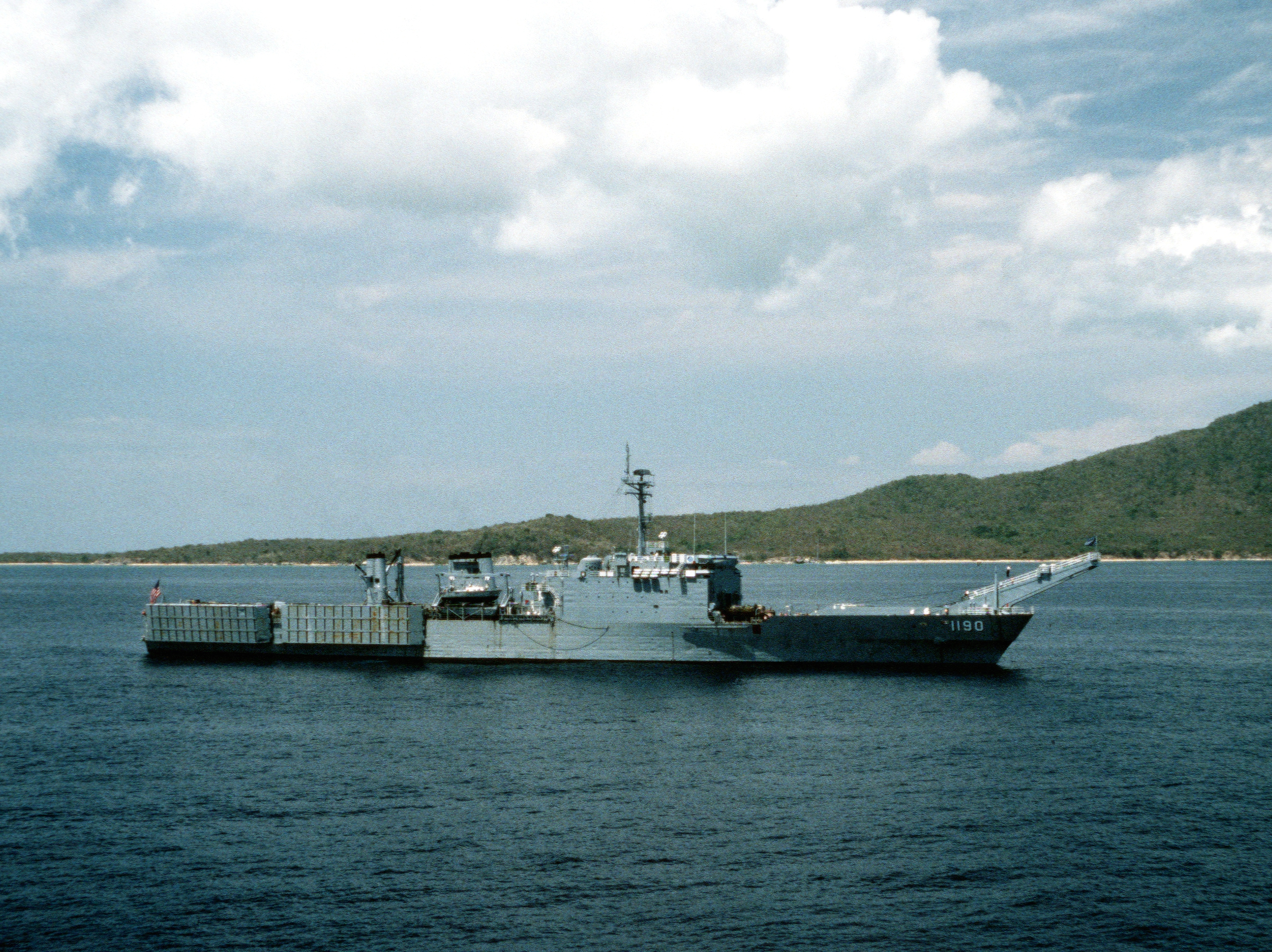 The U.S. Navy tank landing ship USS Boulder (LST-1190) anchored off the coast of Puerto Rico during exercise "Ocean Venture '88", on 30 March 1988.